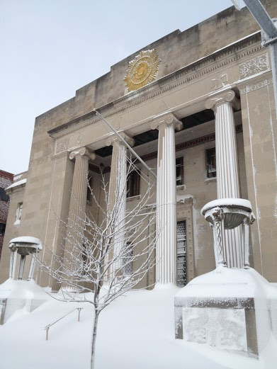 Masonic Temple, 1156 Hancock St.